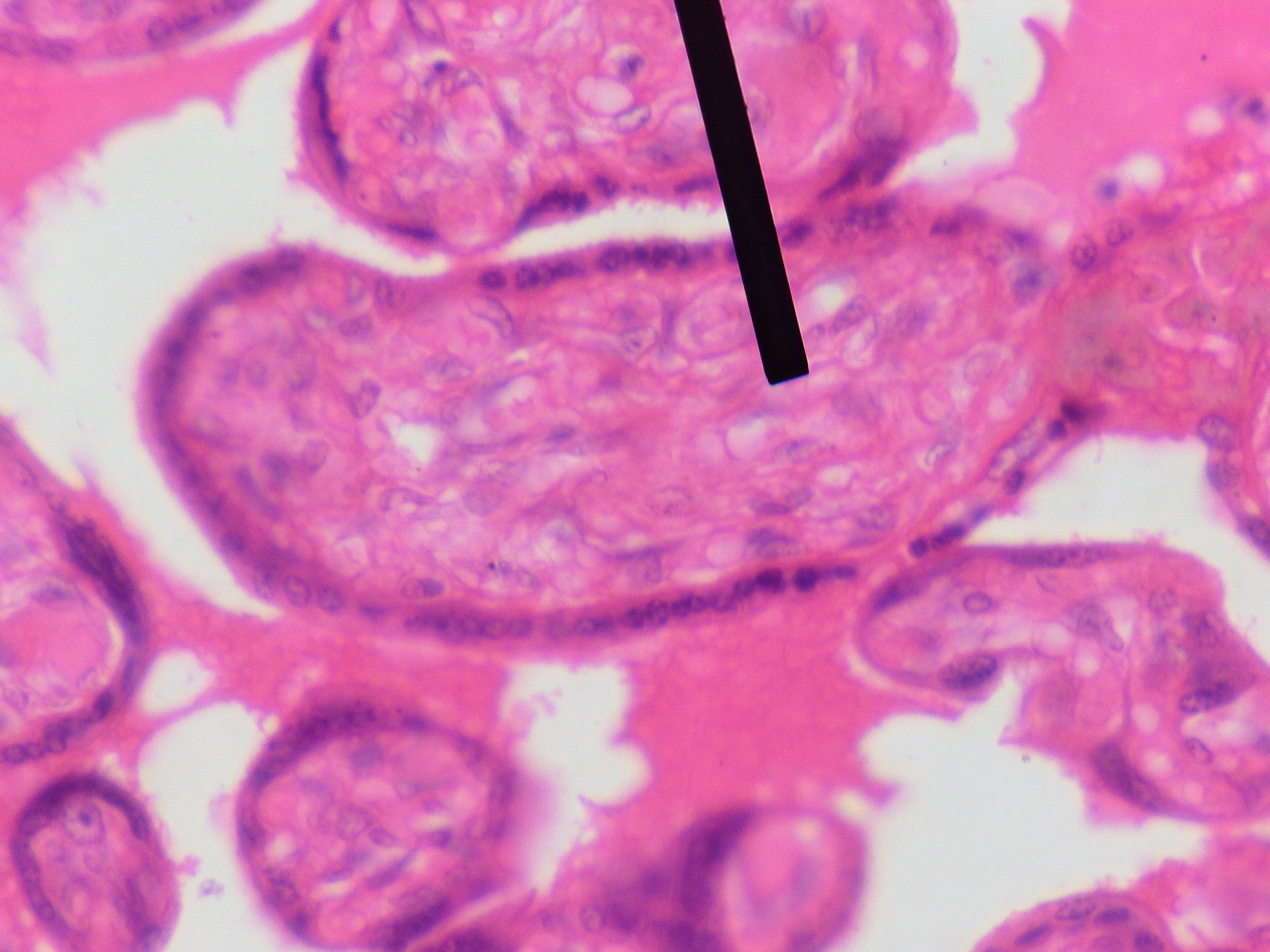 Author's own picture. Digital camera shot though a microscope; human mesenchyme.